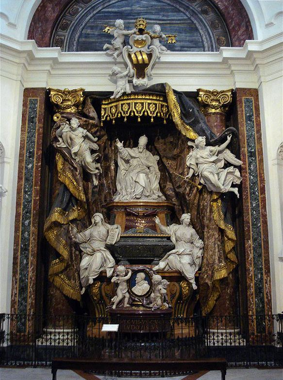 Tomb of Pope Gregory XV and his nephew Cardinal Ludovico Ludovisi, Sant'Ignazio, Rome. Sculptor: Pierre Le Gros the Younger, and Pierre-Étienne Monot (angels flanking the Pope)